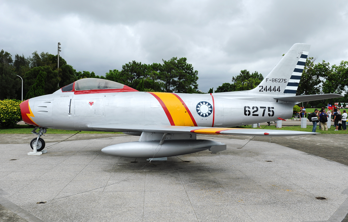 Republic of China Air Force North American F-86F Sabre